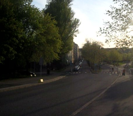 Eastern end of Aleksis Kiven katu in Helsinki, Finland